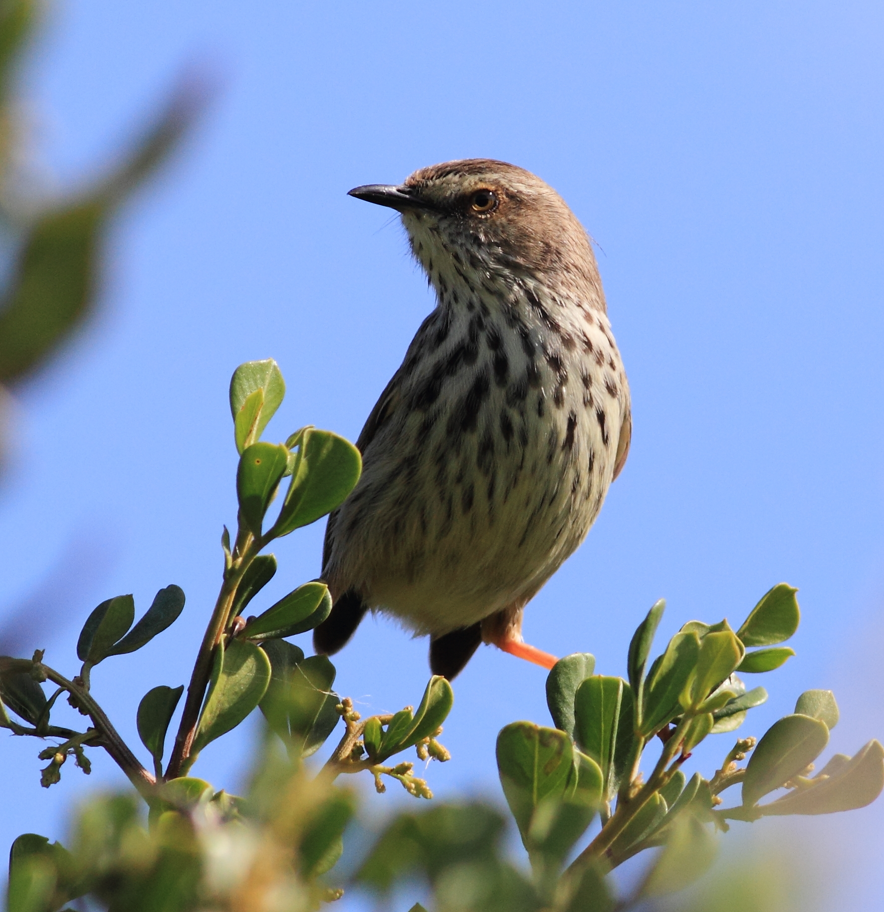 A Karoo Prinia (also known as Spotted Prinia) in Rondevlei Nature Reserve, Cape Town, South Africa.